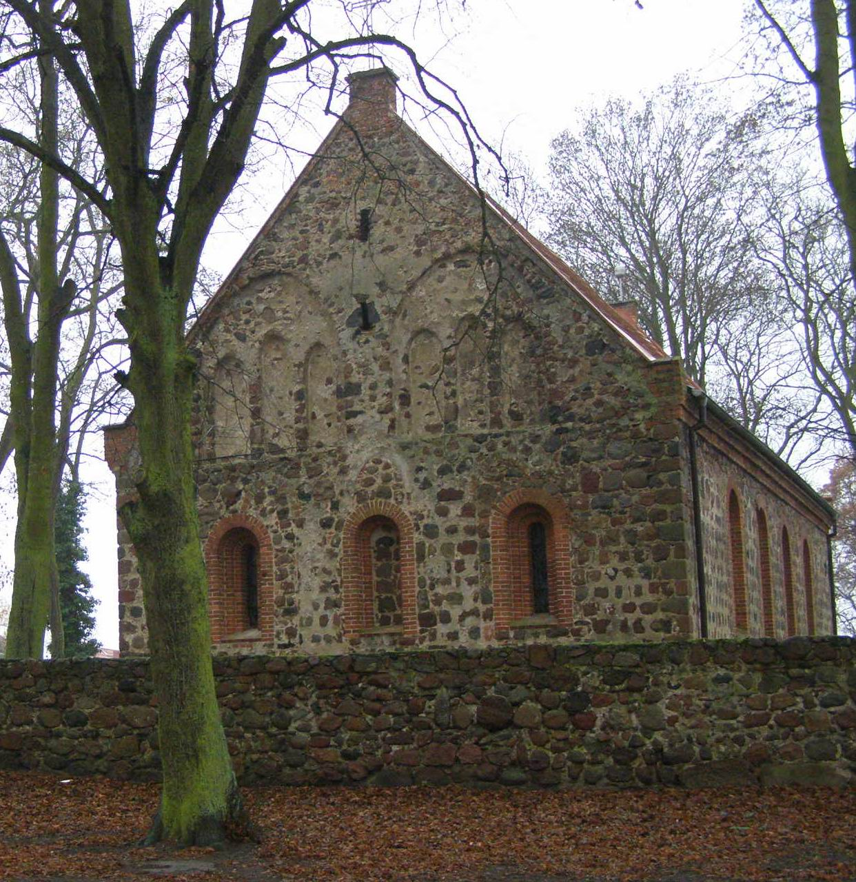 Church in Barnisław (13th century) in Police County, West Pomeranian Voivodeship, Poland